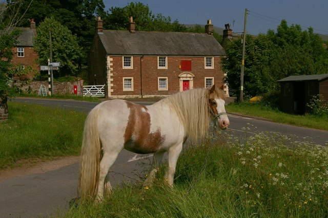 Traveller's Horse on Melmerby Village Green. Travellers fill the village green for a couple of weeks in June every year.